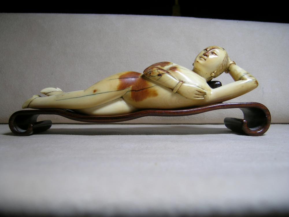 Tao Kimong, 1821-1850, Brodny collection